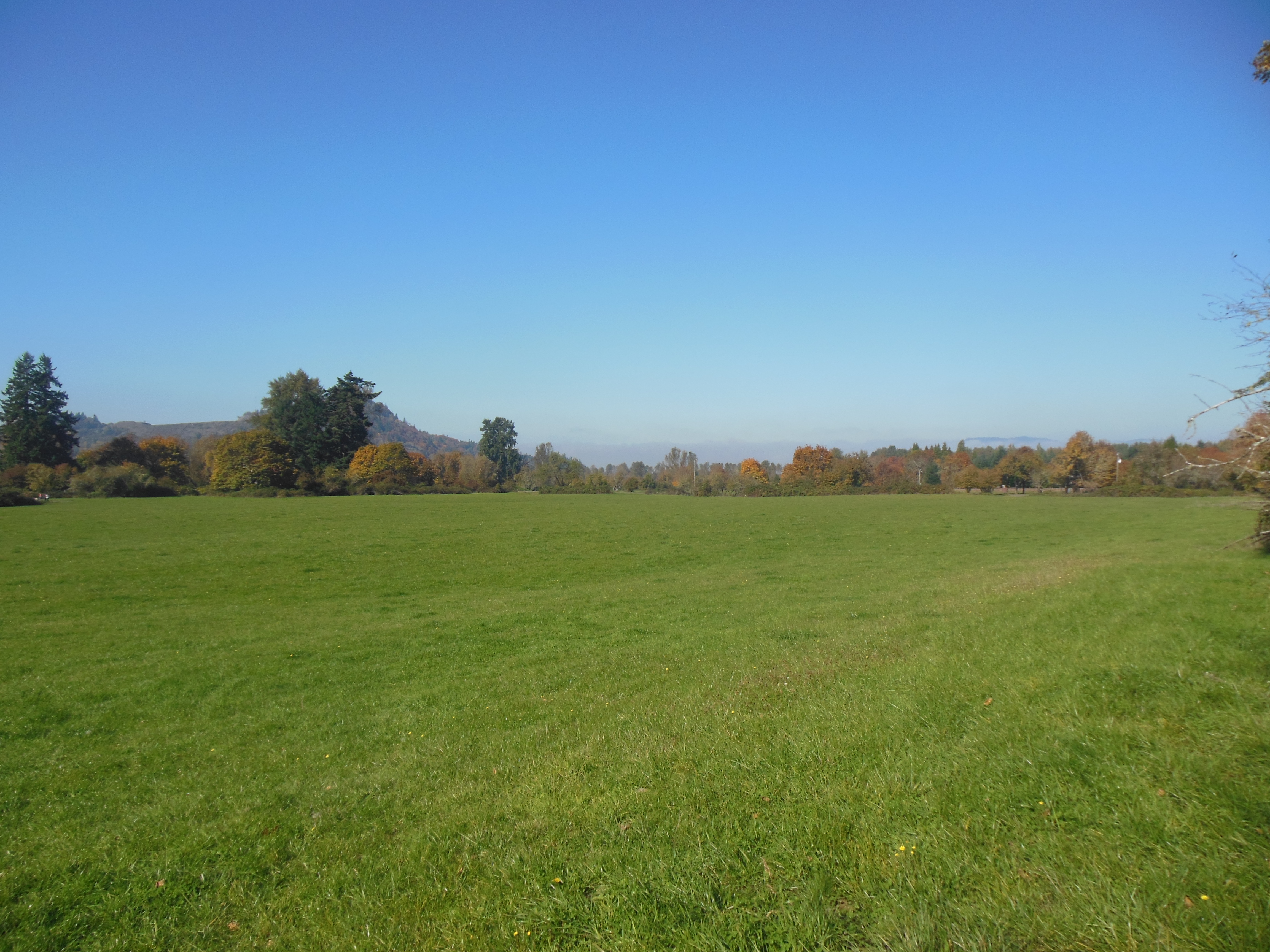 A field of short grass west of Mount Pisgah in Lane County, Oregon, USA